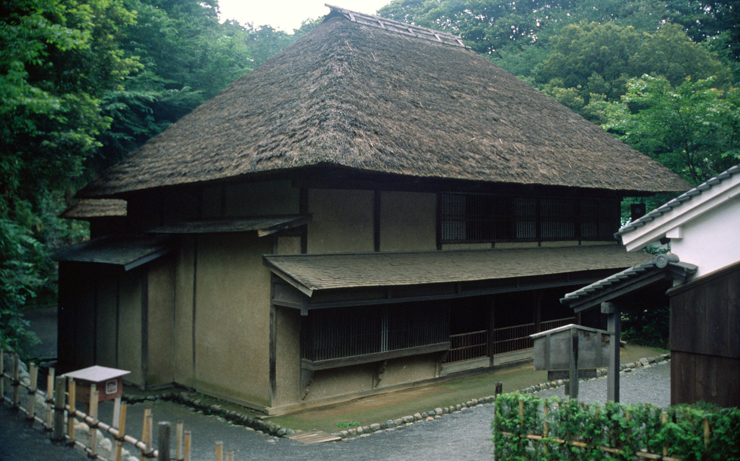 Japanese traditional house on display at Nihon Minka-en, Kawasaki, Kanagawa prefecture, Japan. I took this photo and contribute my rights in the file to the public domain.